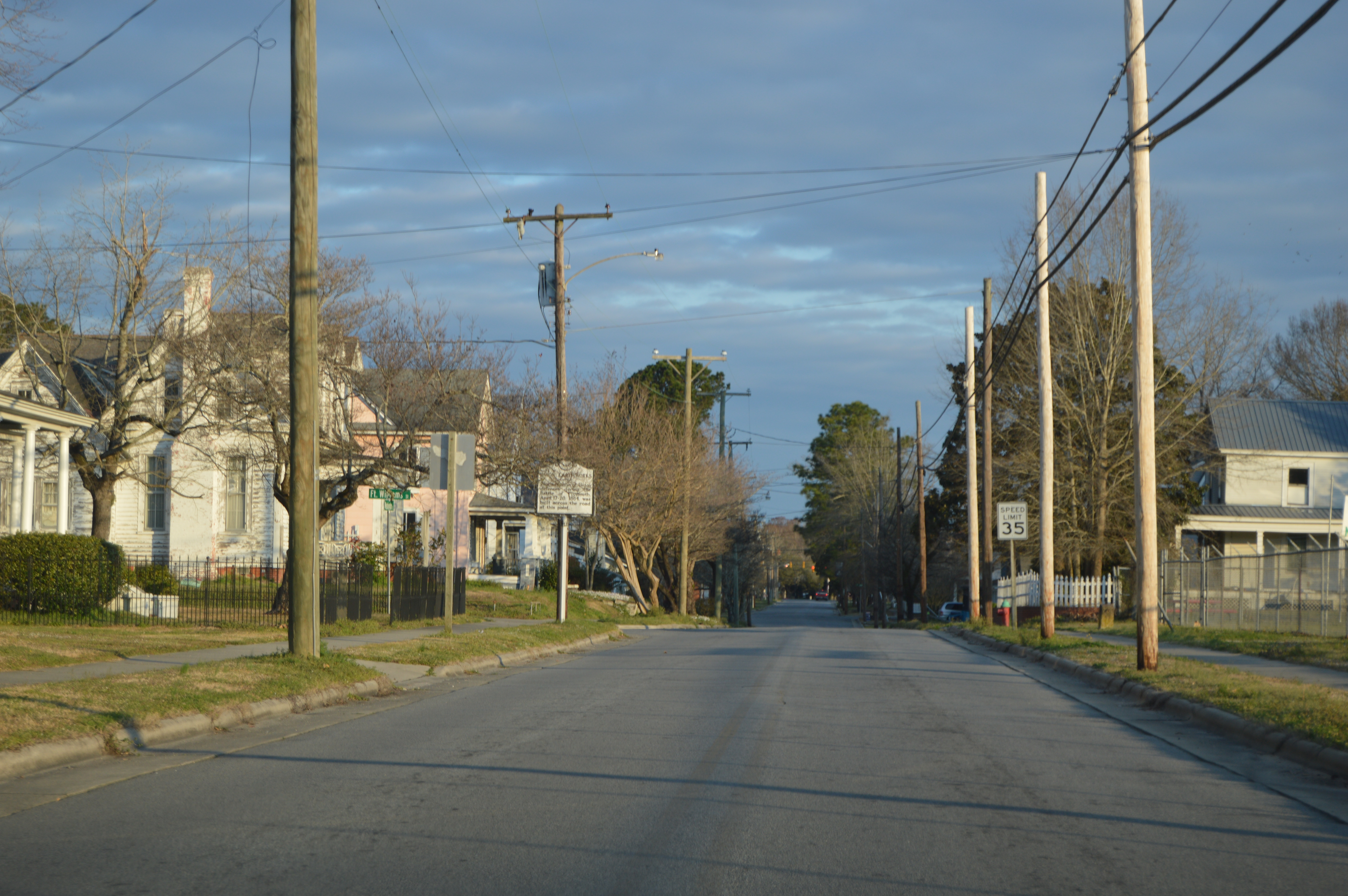 Looking north on Washington Street, toward Fort Williams Street, Plymouth, North Carolina, United States. This was the site of battle lines during the Battle of Plymouth in the American Civil War.